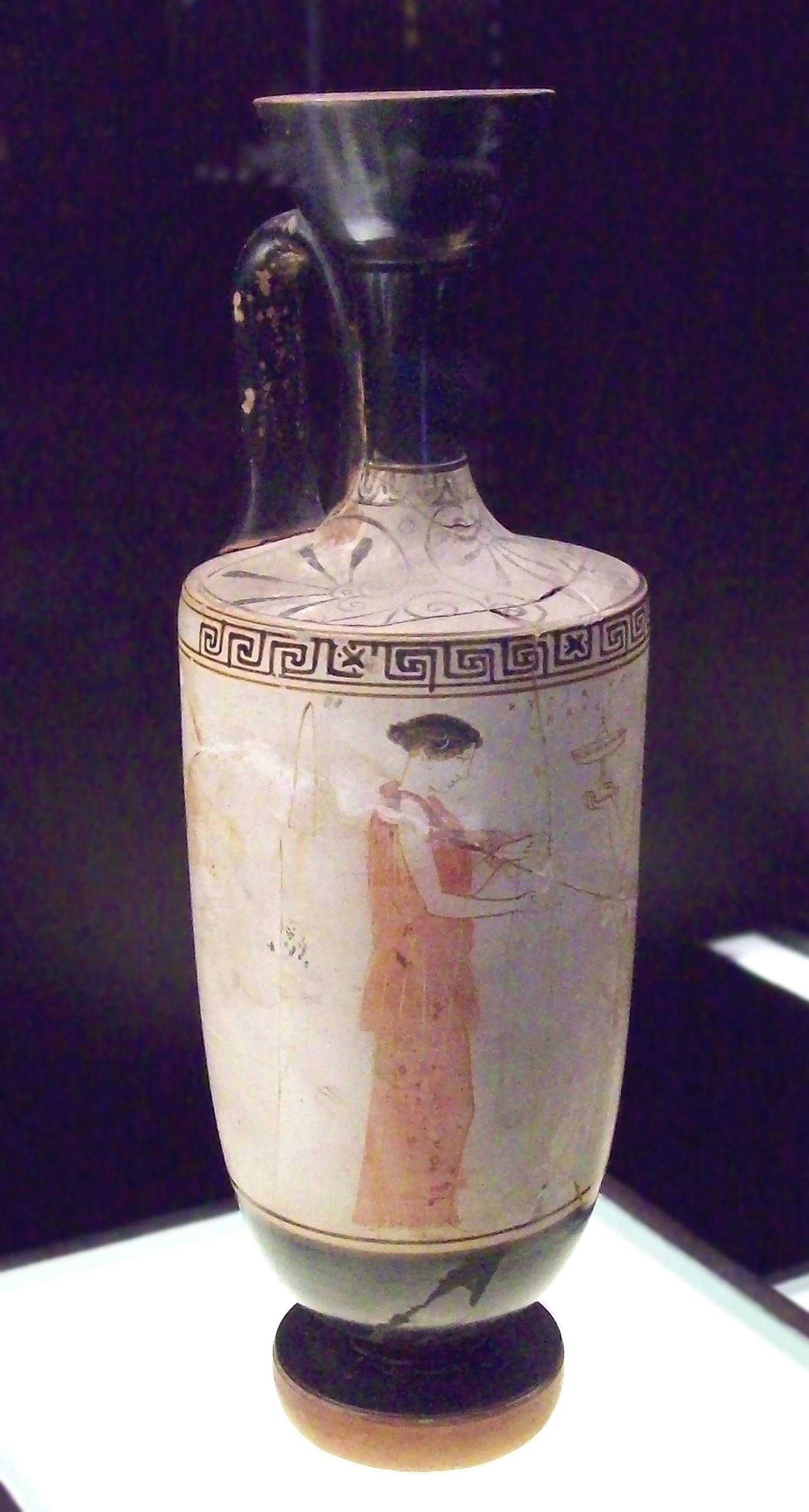 A white-ground lekythos showing the preparation for a maiden's ritual bath before her wedding in the Underworld (Hades used to marry the girls that died without getting married).